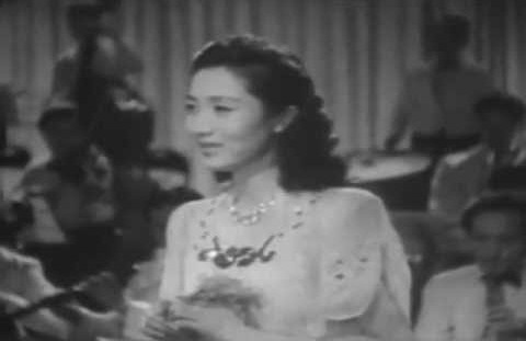 Mitusue Nara who sings Rainy night train